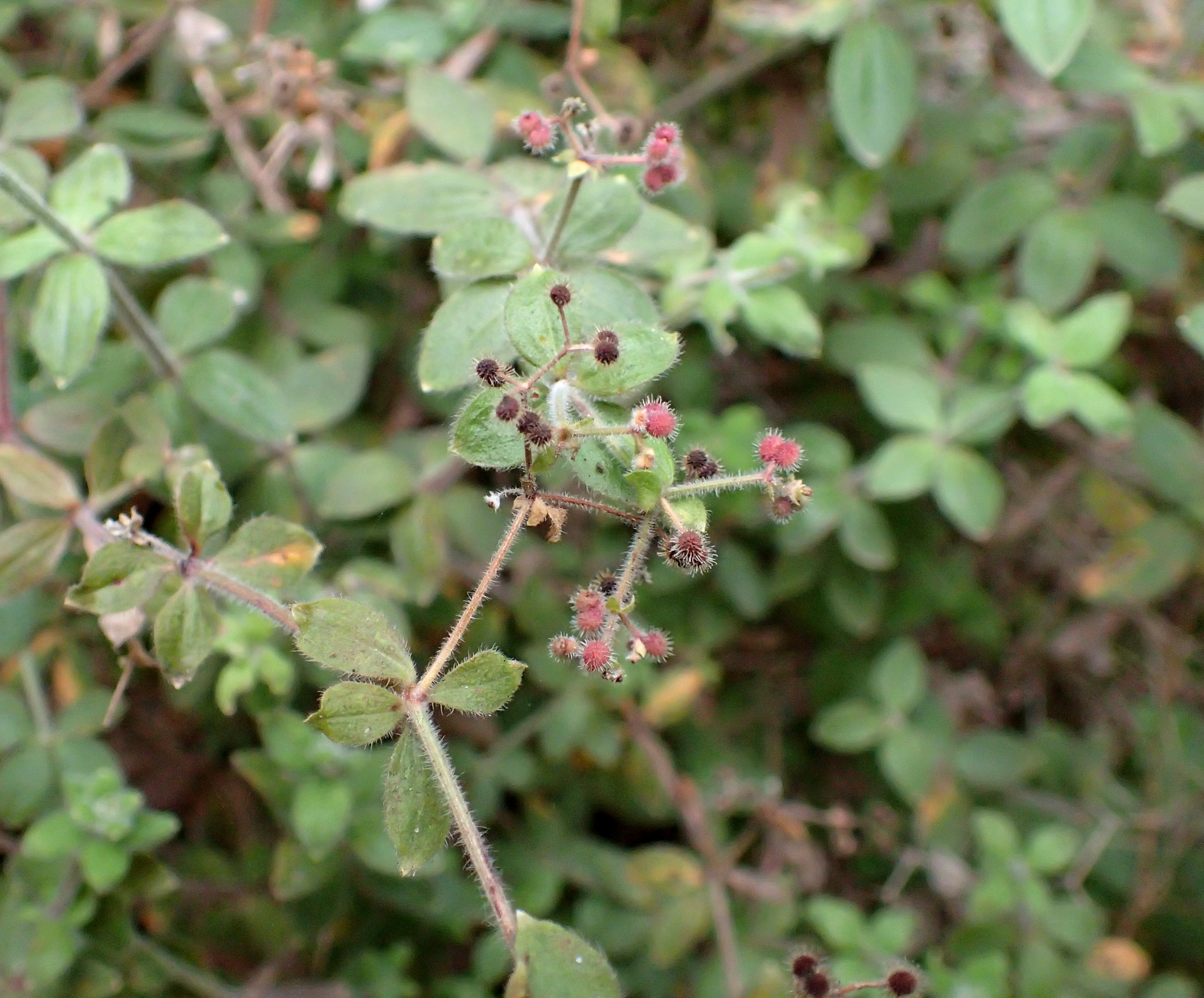 Galium scabrum in forest in Anaga Mountains, NE Tenerife Island